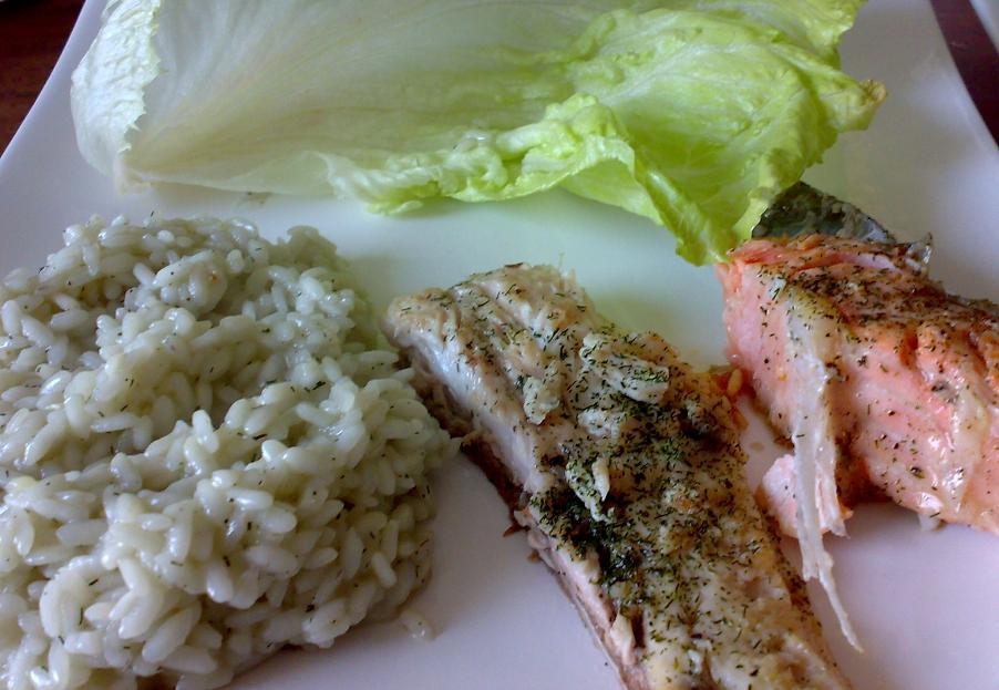 Risotto, Bighead carp and Salmon (from left).